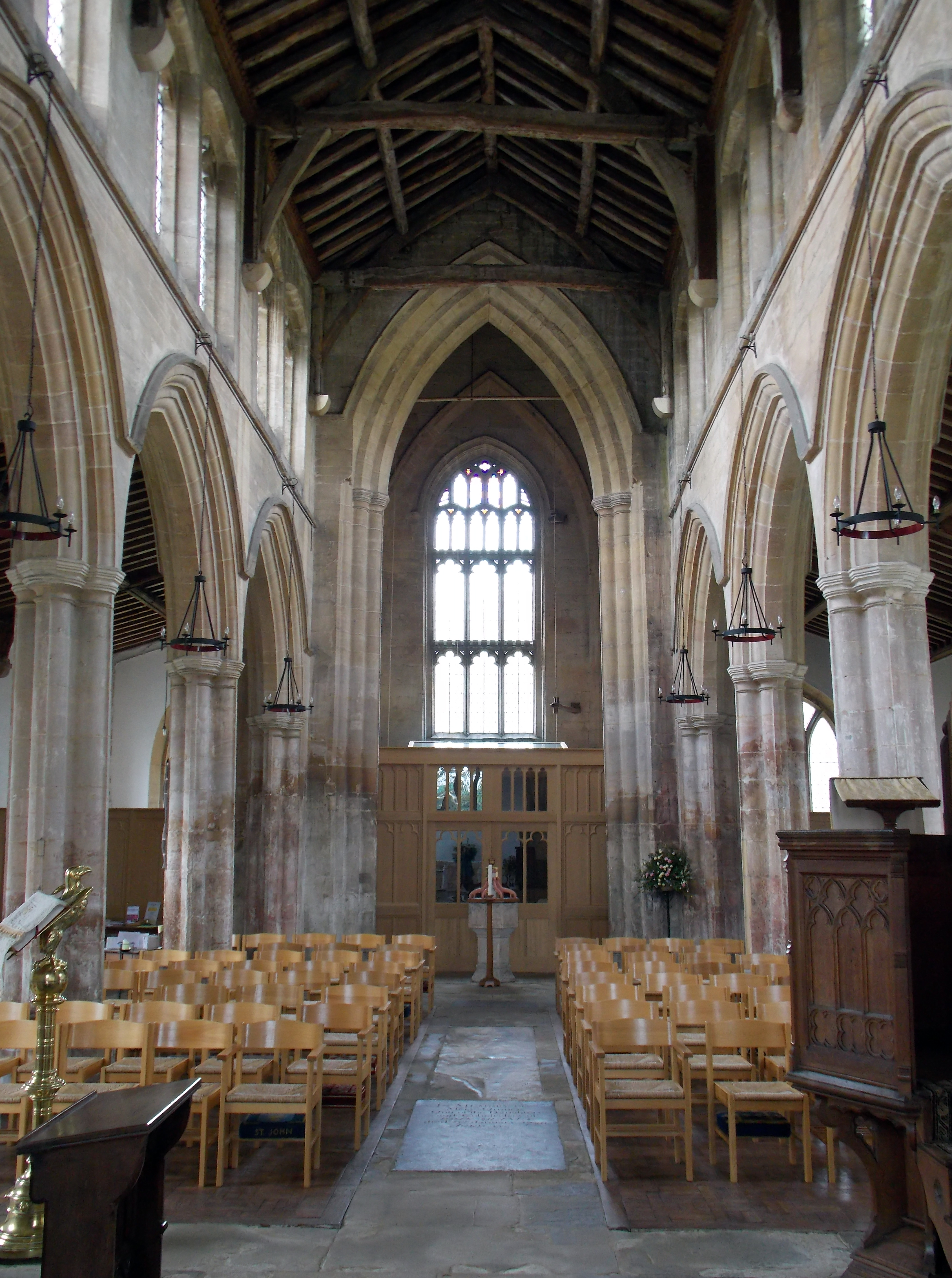 Aslackby St James, interior - Tower Arch from Nave